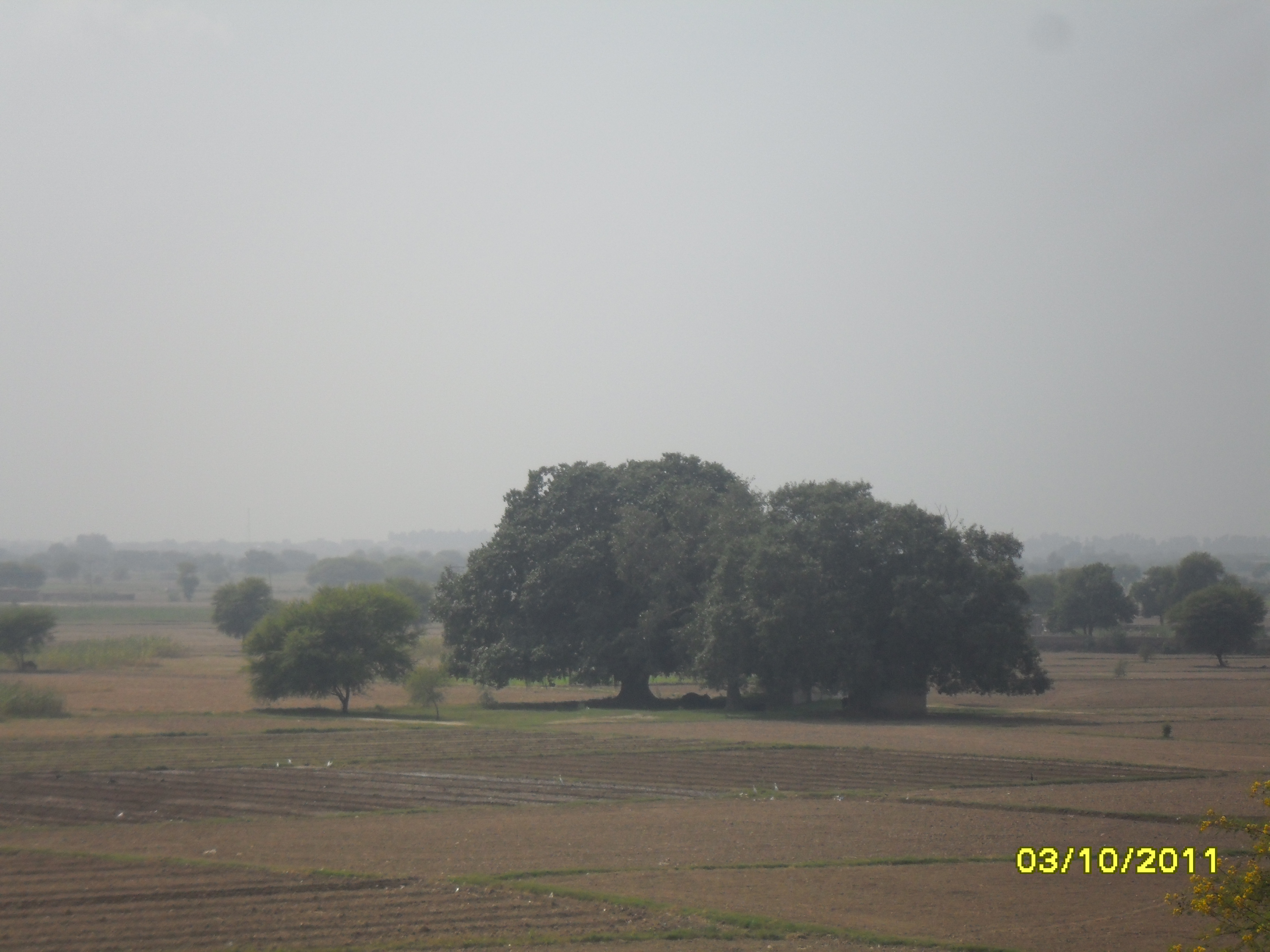 Oldest tree in Dhunni